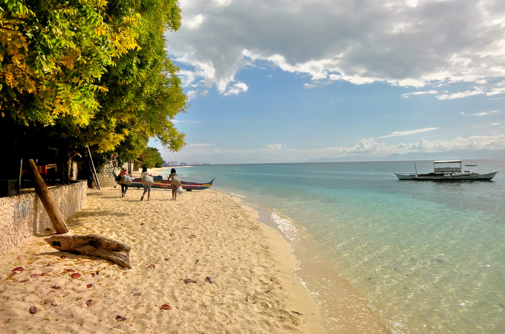 Picture of White Beach, taken towards the south outside Barefoot Resort